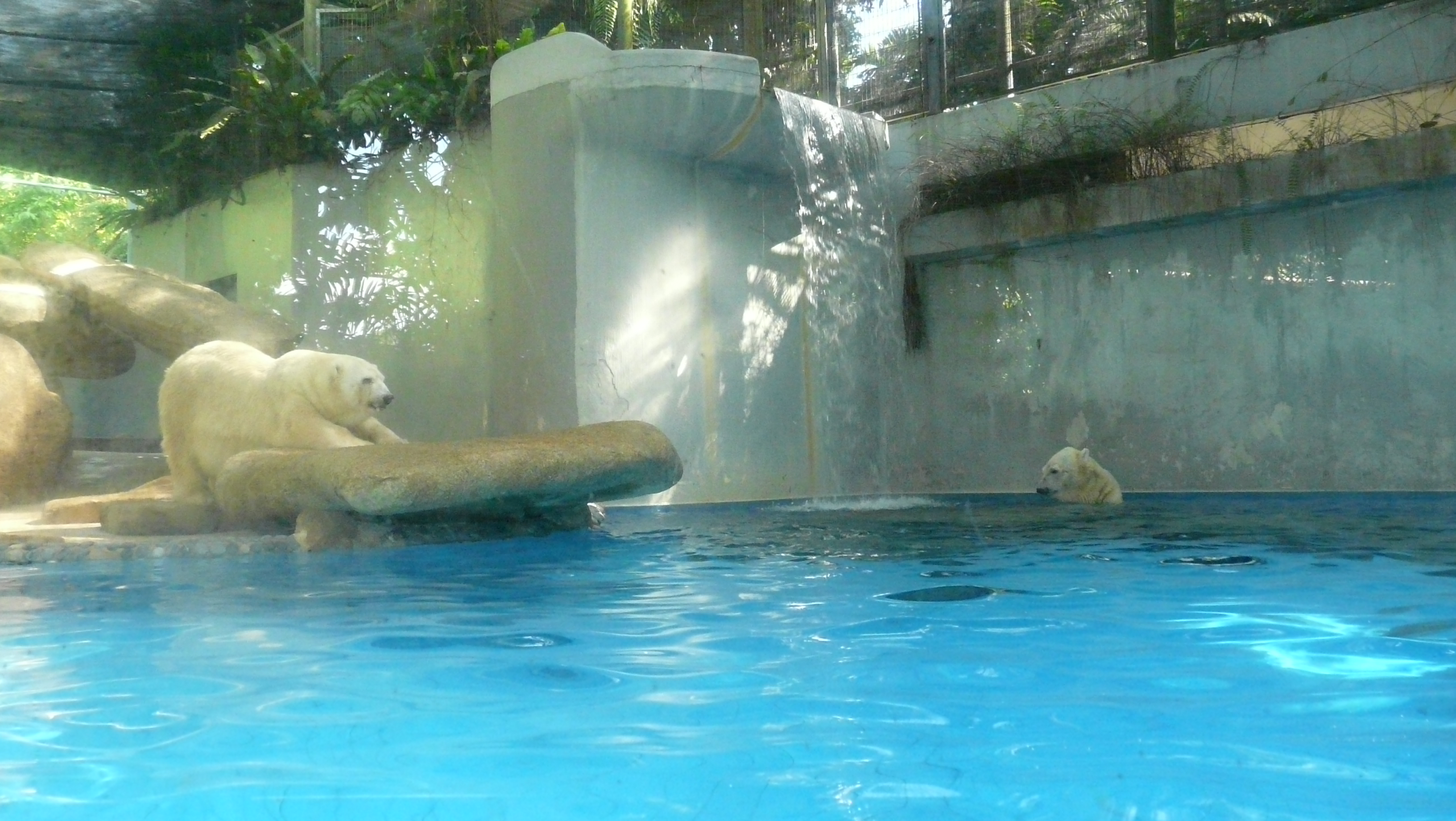 Polar bear, Singapore Zoo, Sheba, Inuka